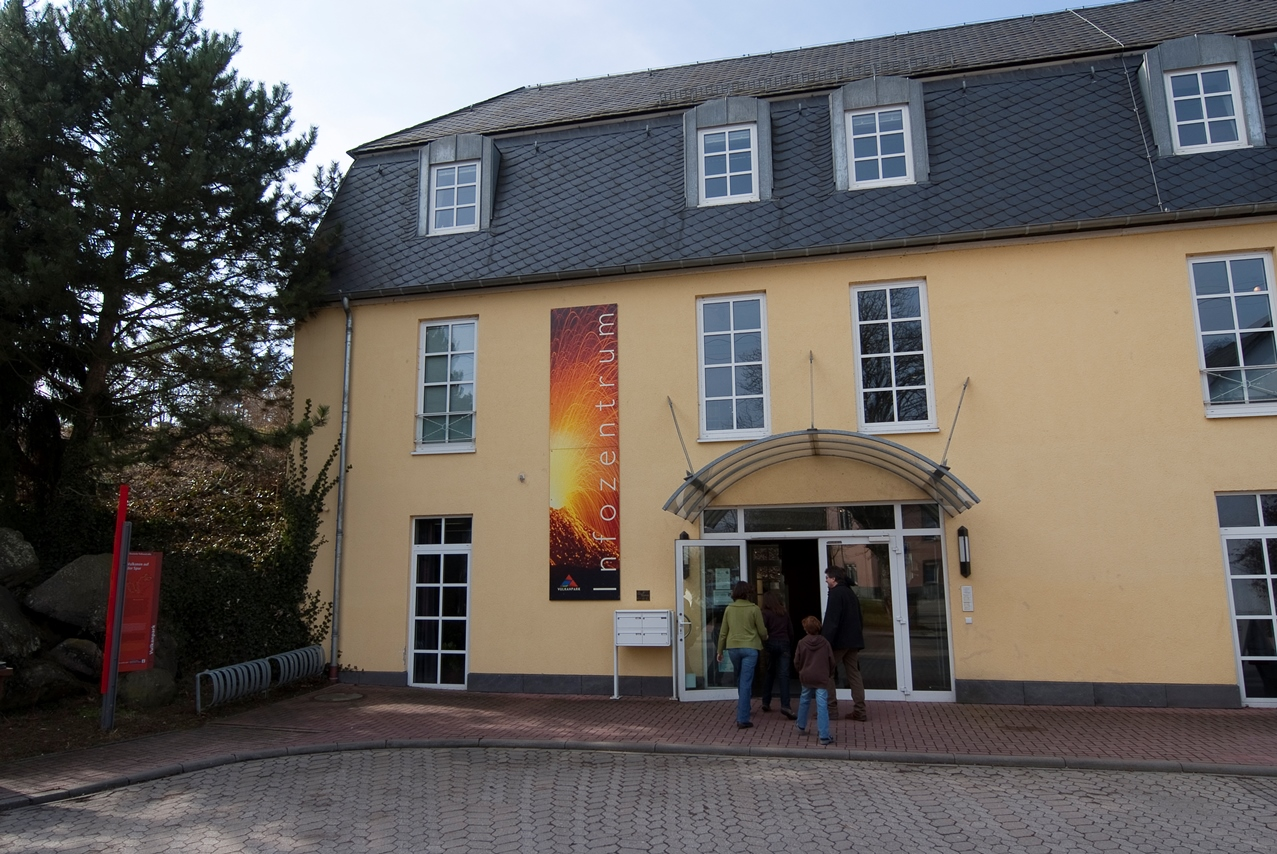 Volcano Parc Information Centre